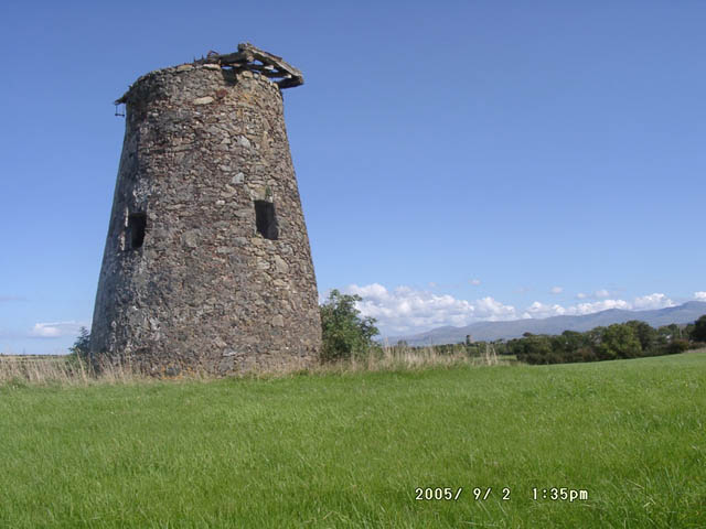 Old windmill at Gaerwen, Anglesey.